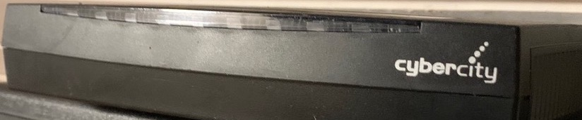 ZyXEL ADSL router from the danish internet provider Cybercity (today Telenor).